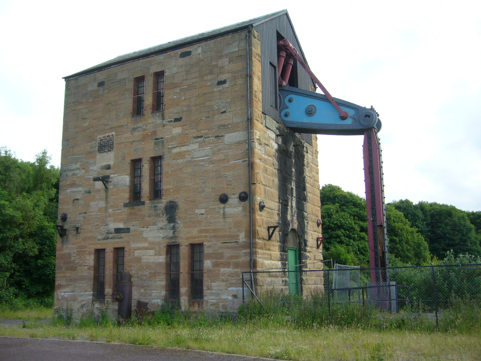 Beam engine, Prestongrange Colliery